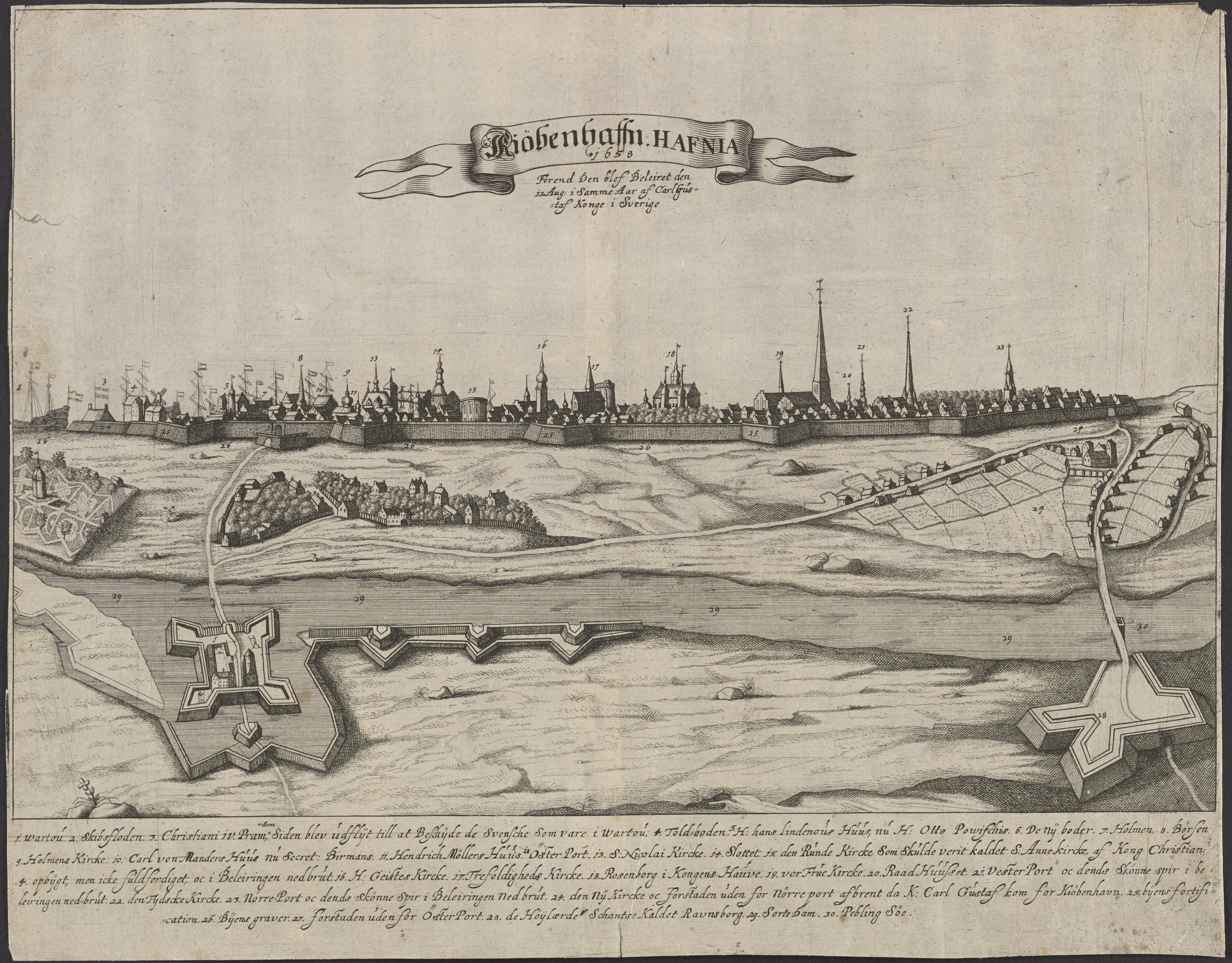 Map of Copenhagen in 1658 by Peder Hansen Resen and Johan Husman.